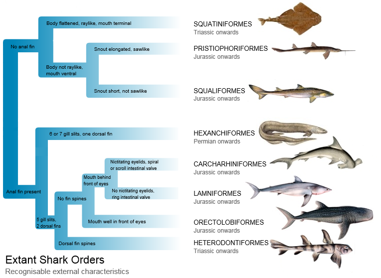 Taxonomic diagram of the 8 extant shark orders.